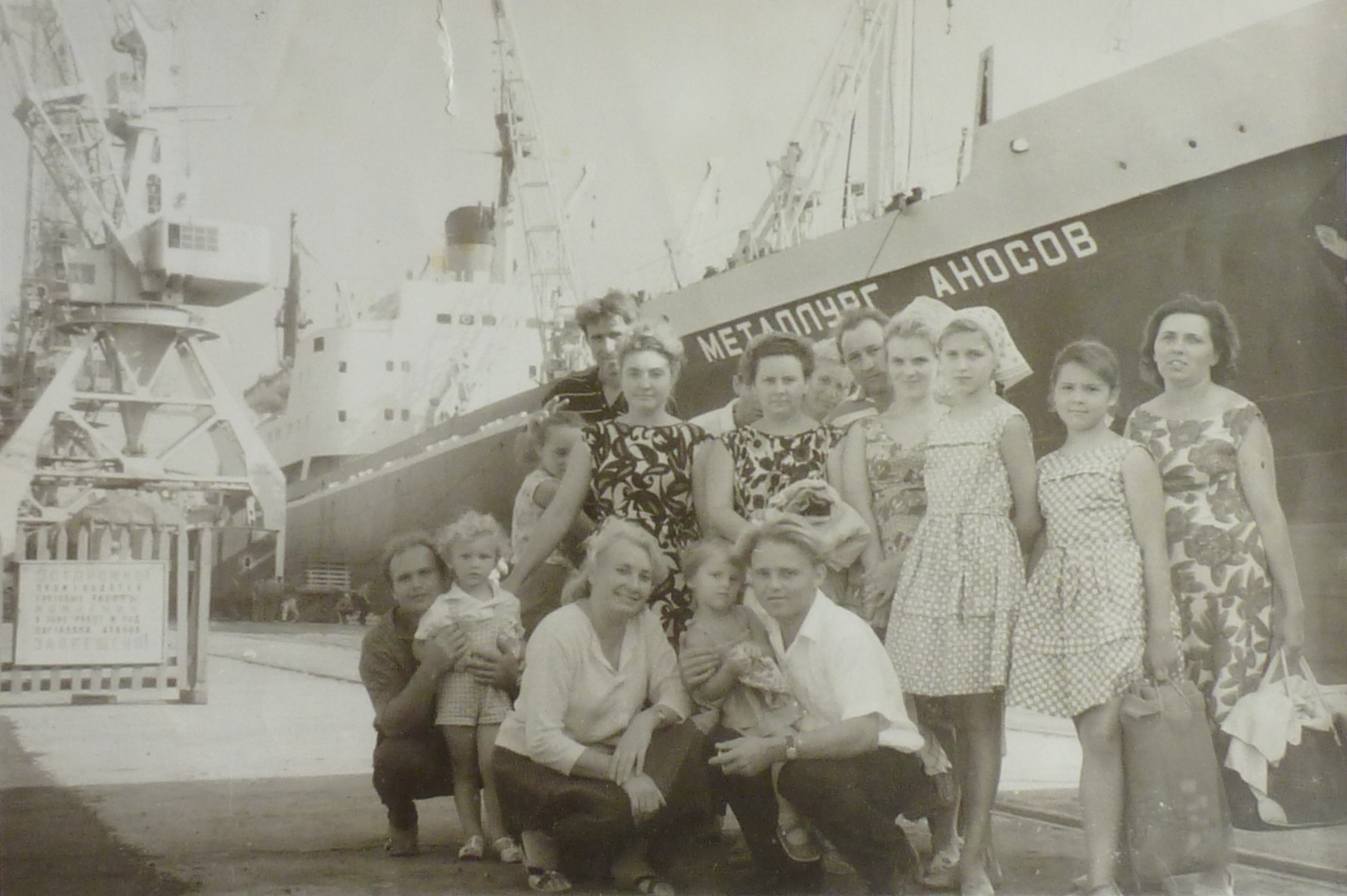 Soviet merchant vessel Metallurg Anosov with some crew members and their families in Odessa port.